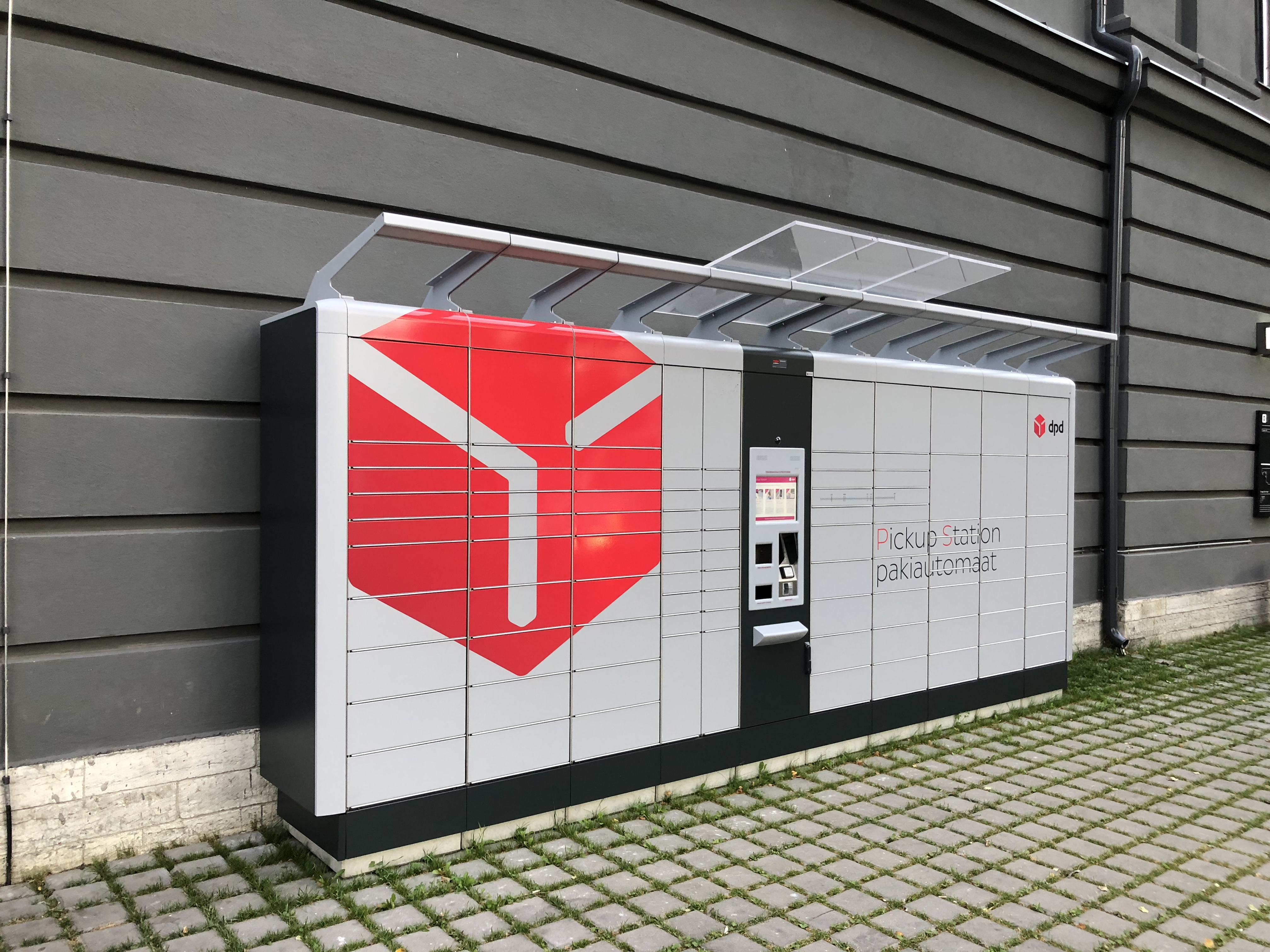 DPD Pick Up Station Parcel Lockers in Tallinn (Estonia)